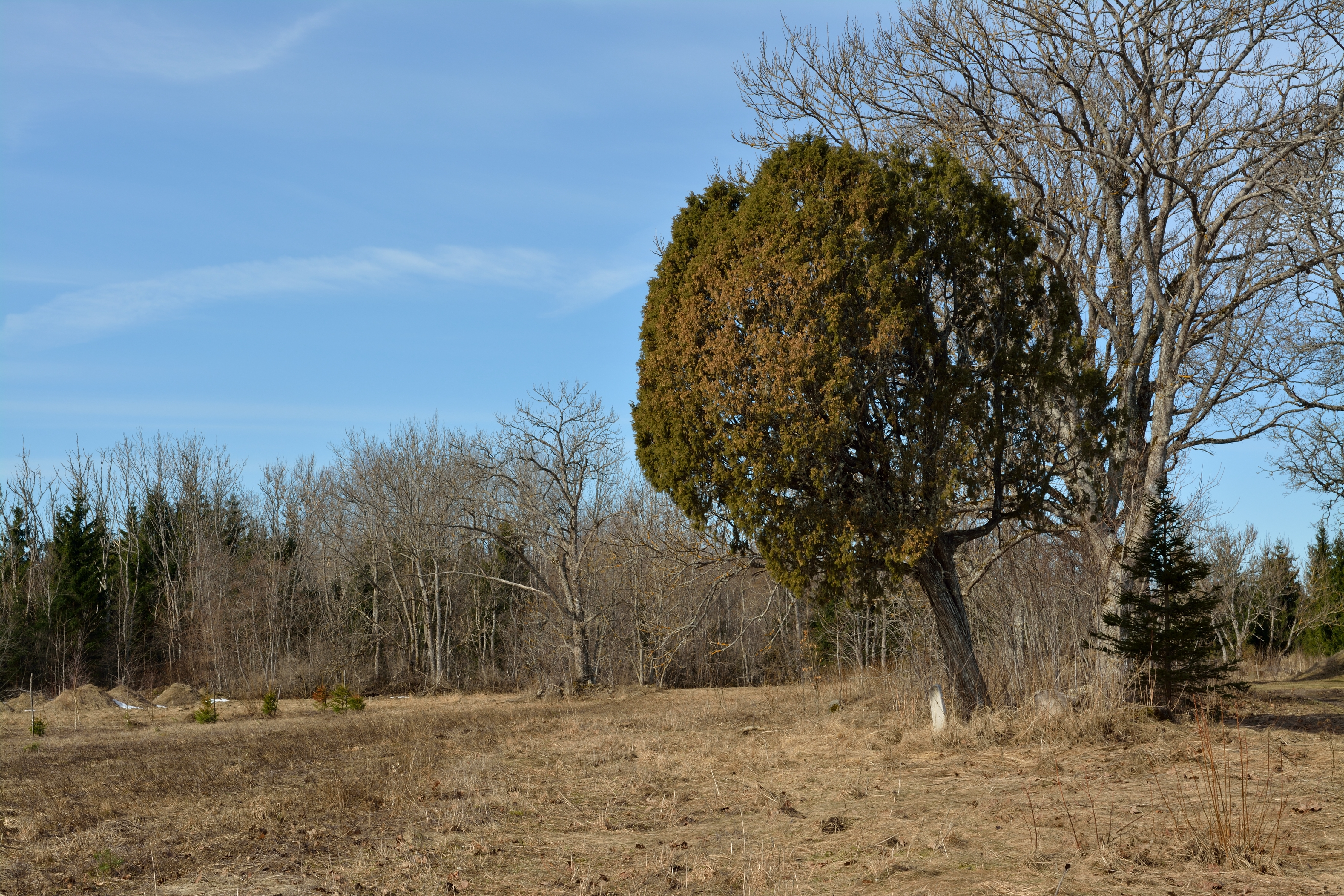 Tõnsu juniper (Juniperus communis)